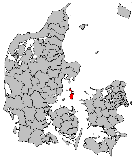 Location maps of Danish municipalities